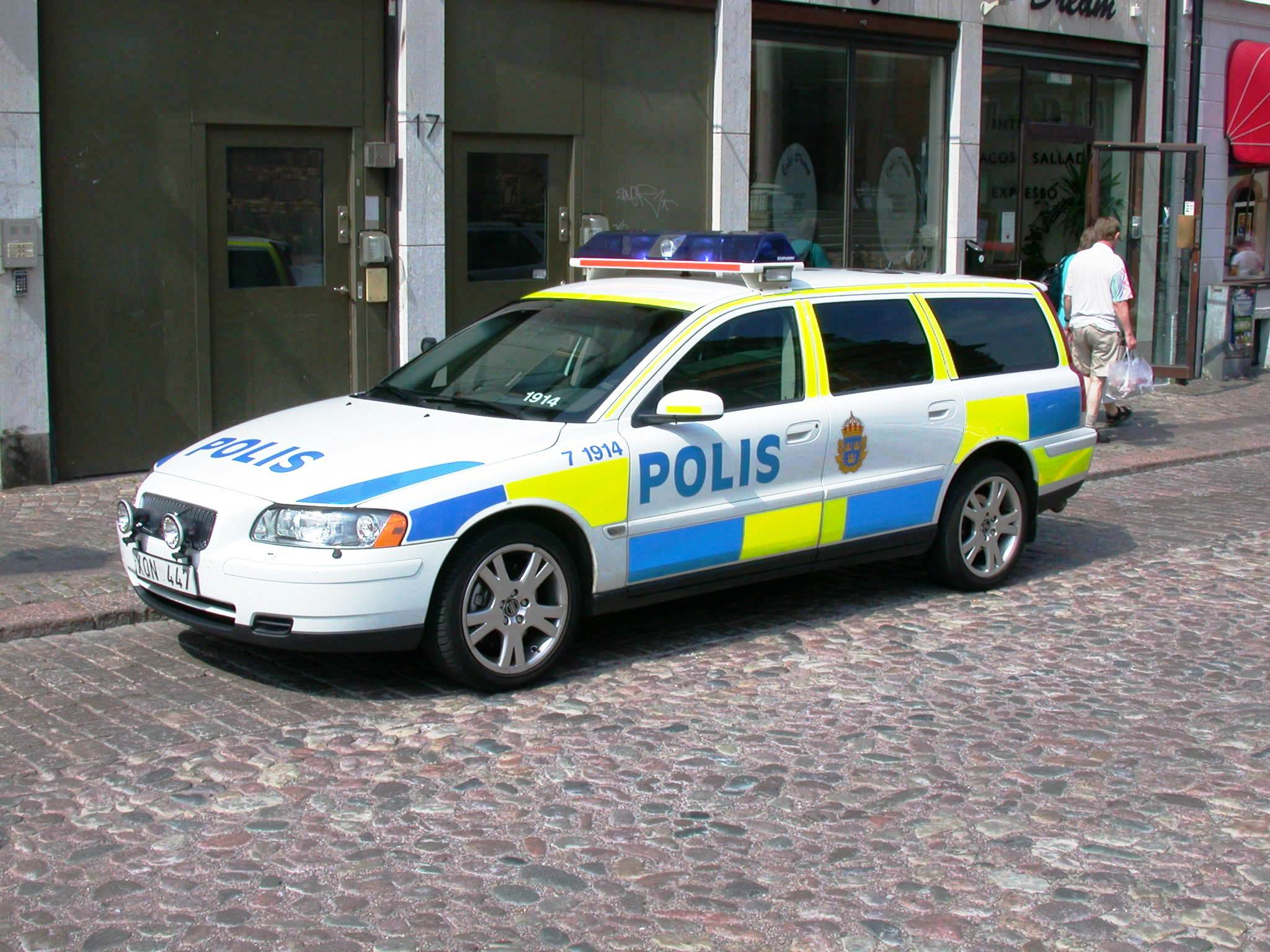 Swedish police car (Volvo), new livery (according to the decision of The National Police Board, May 9, 2005).